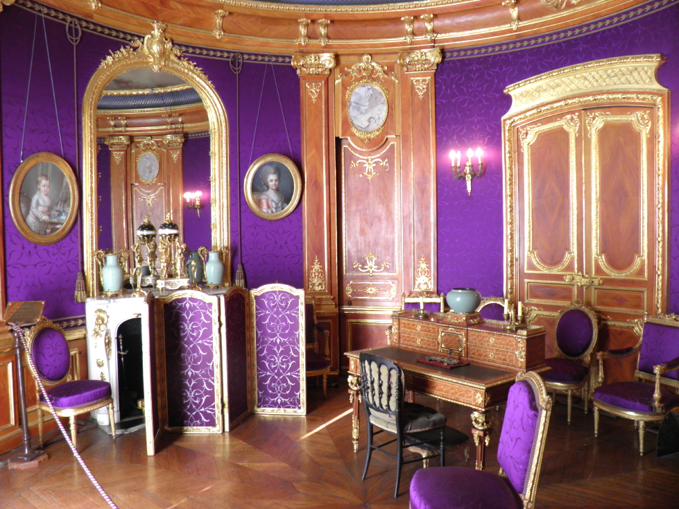 Violet Room. Petits appartements, château de Chantilly, Oise, France.